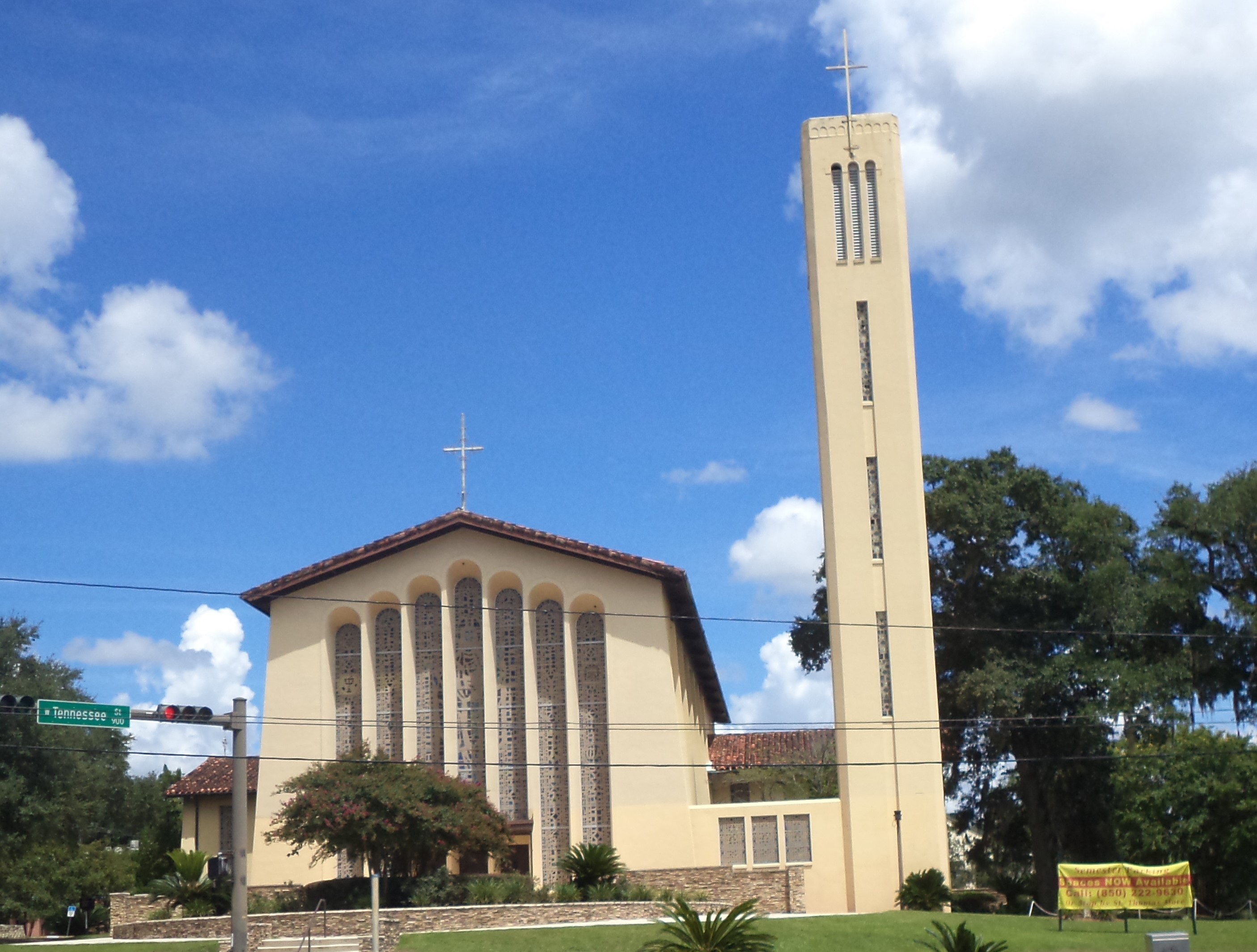 Co-Cathedral of Saint Thomas More, 900 W Tennessee St., Tallahassee, Leon County, Florida.